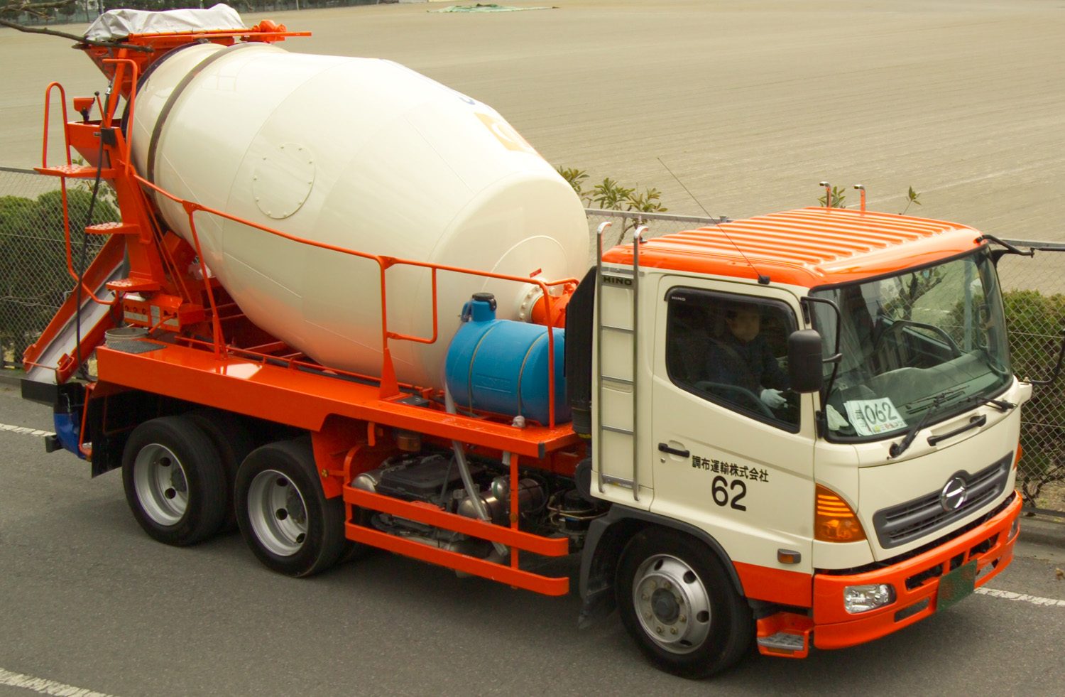 This Kayaba Rocket cement mixer delivers concrete in Japan.